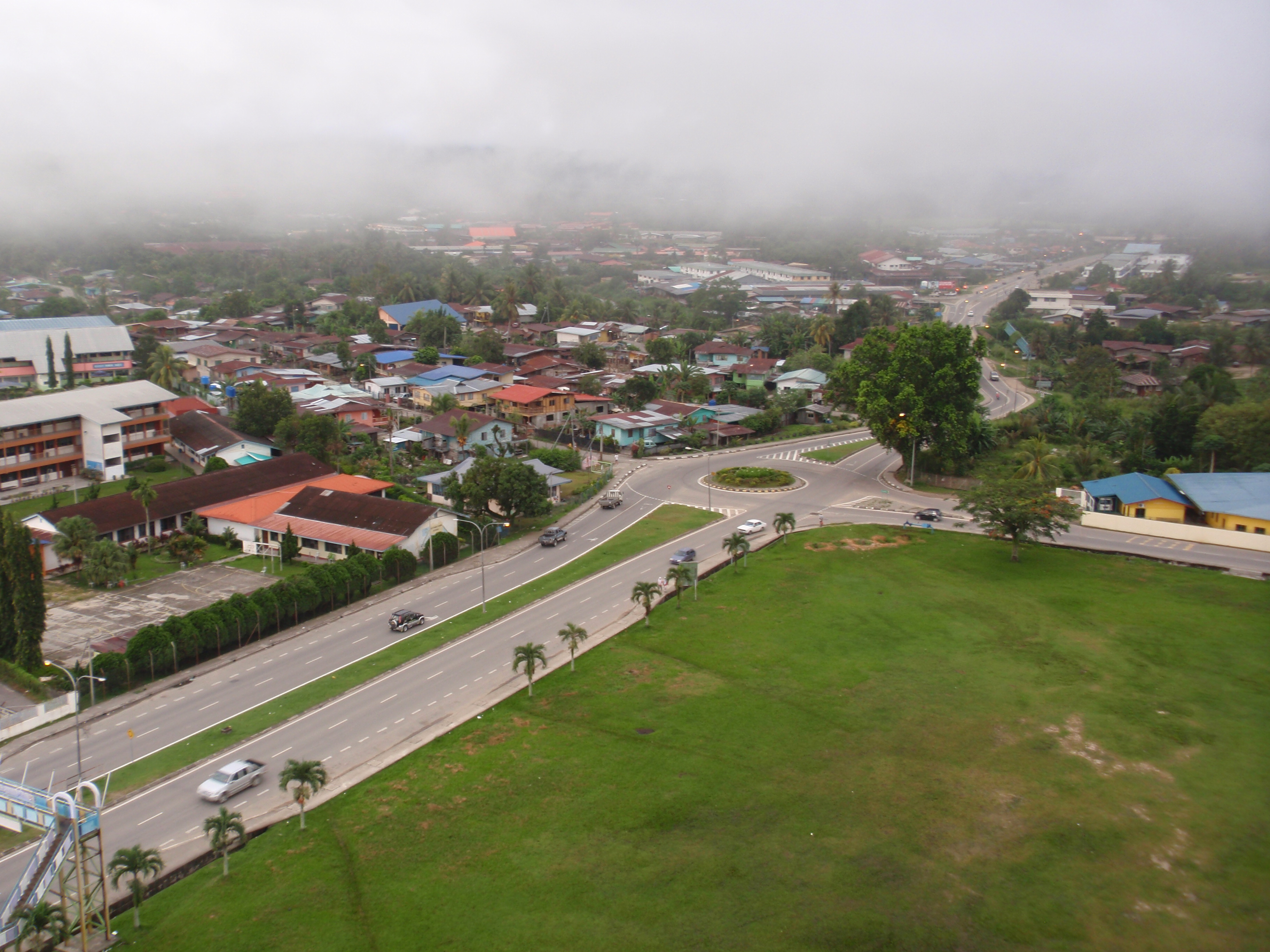 We stayed at the tallest hotel downtown, Juta Hotel. And tall hotels means nice views. On the 10th floor I discovered a balcony which gives you a 360 degrees view of Keningau. It was quite misty that morning.